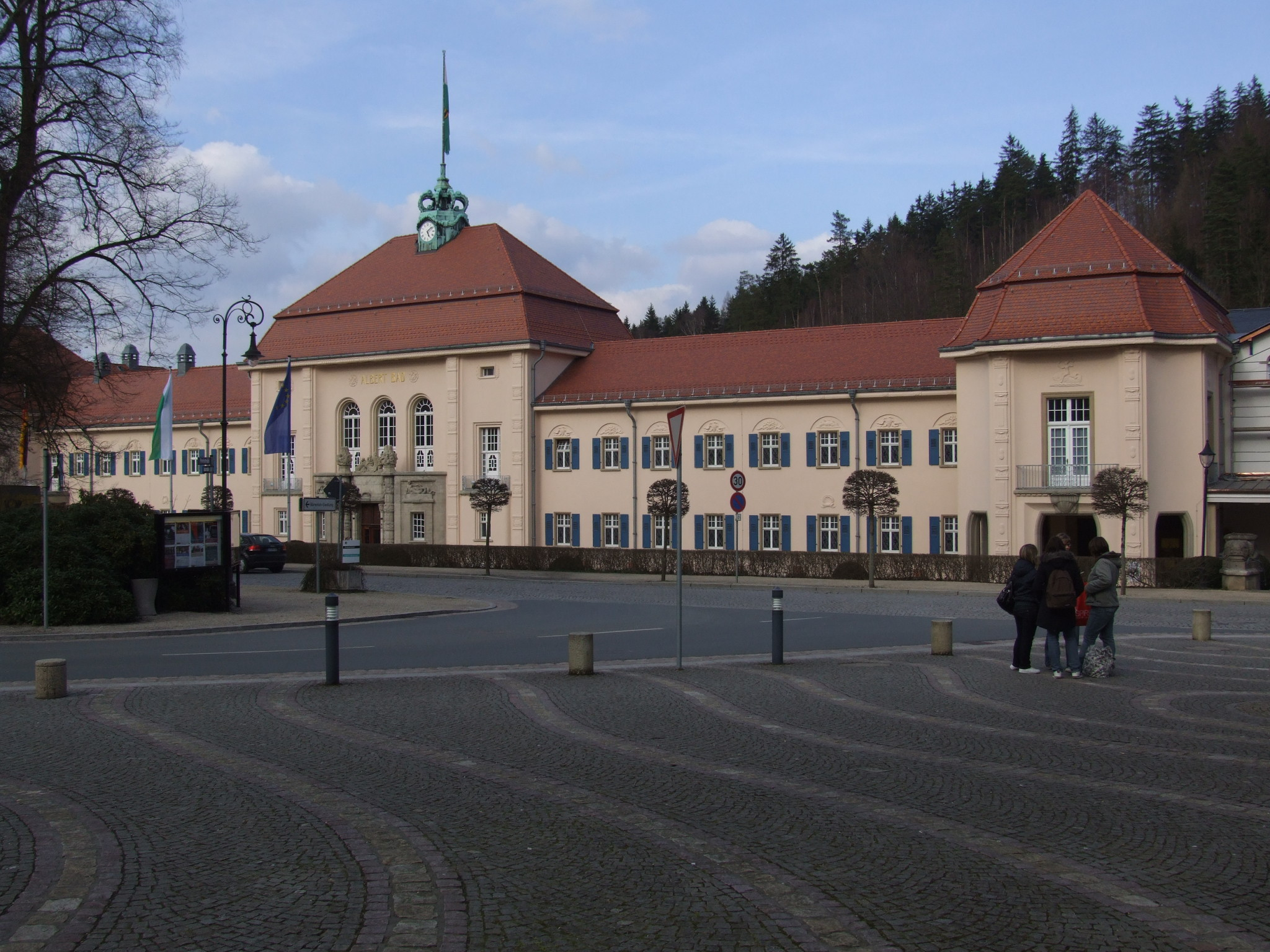 Bad Elster, Saxony, Germany in April 2008. The Albert Bad.